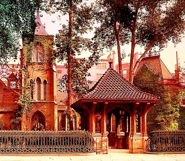 Little Church Around the Corner in New York City